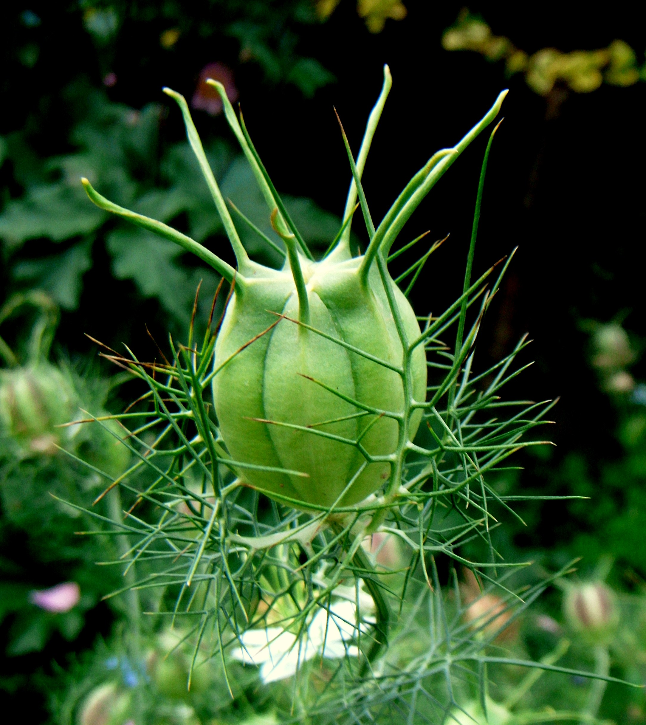 Photo taken in the garden of Susan Crilly-Keenan Crumlin Rd.